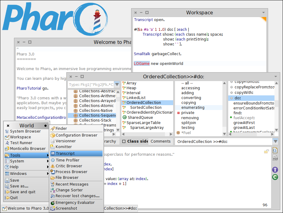 Screenshot of the Pharo IDE